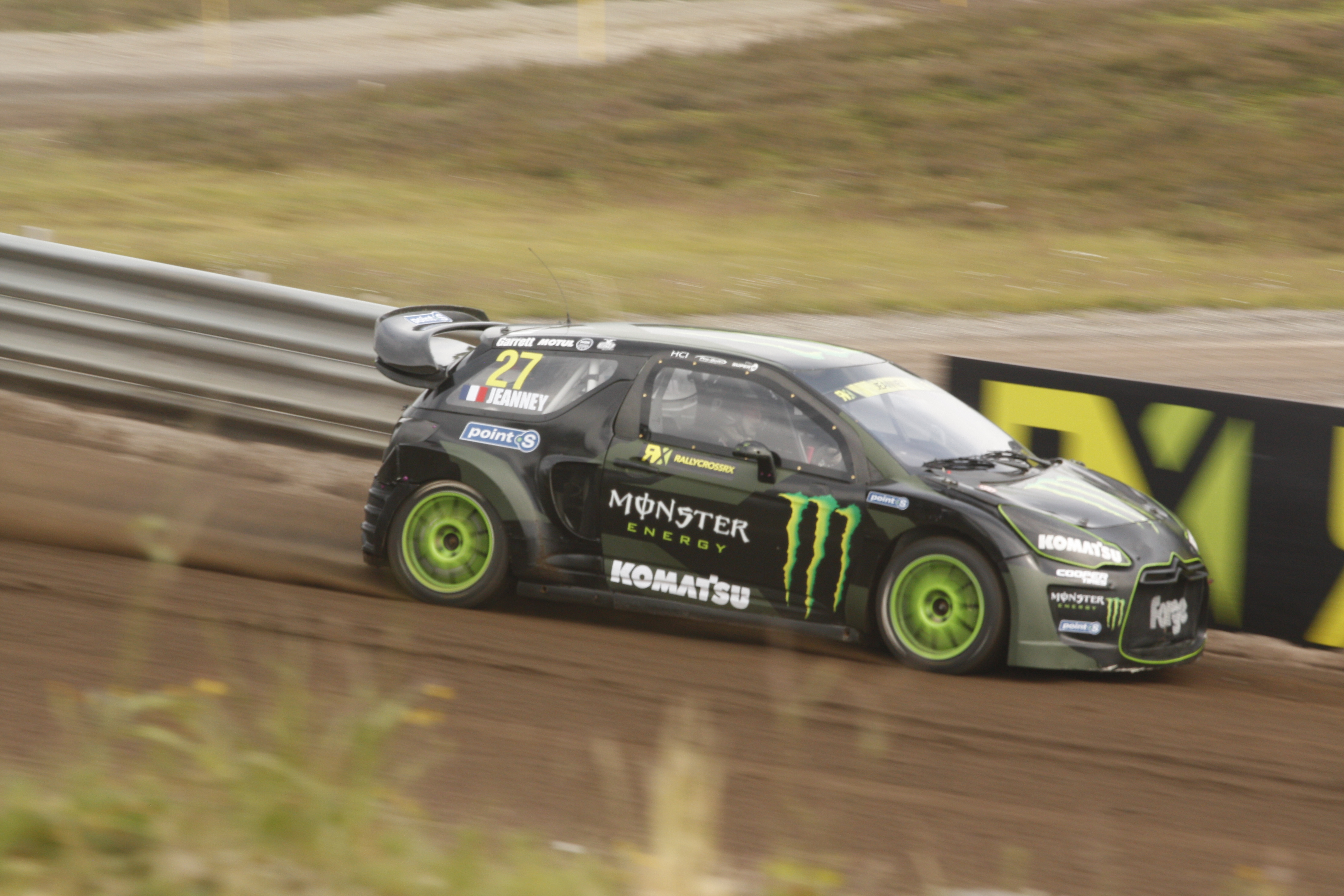 2014 version